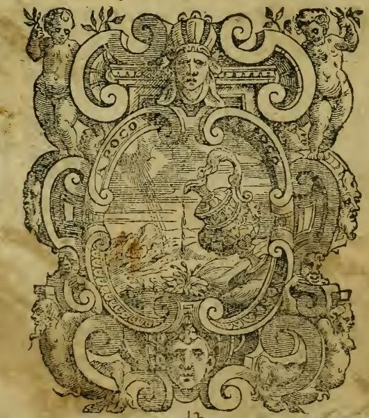 Angelieri's mark